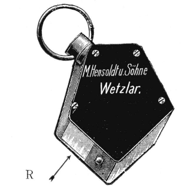 Small rangefinder, 1899